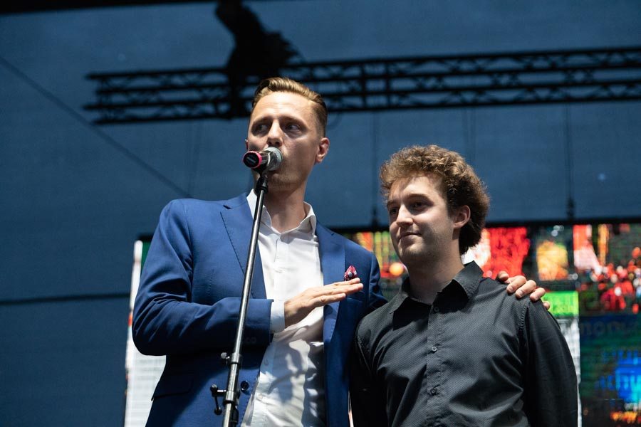 Festival Re:publika, Brno 2018